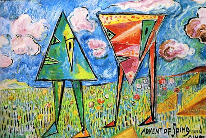 1914 Painting "Advent of Sping"[sic]